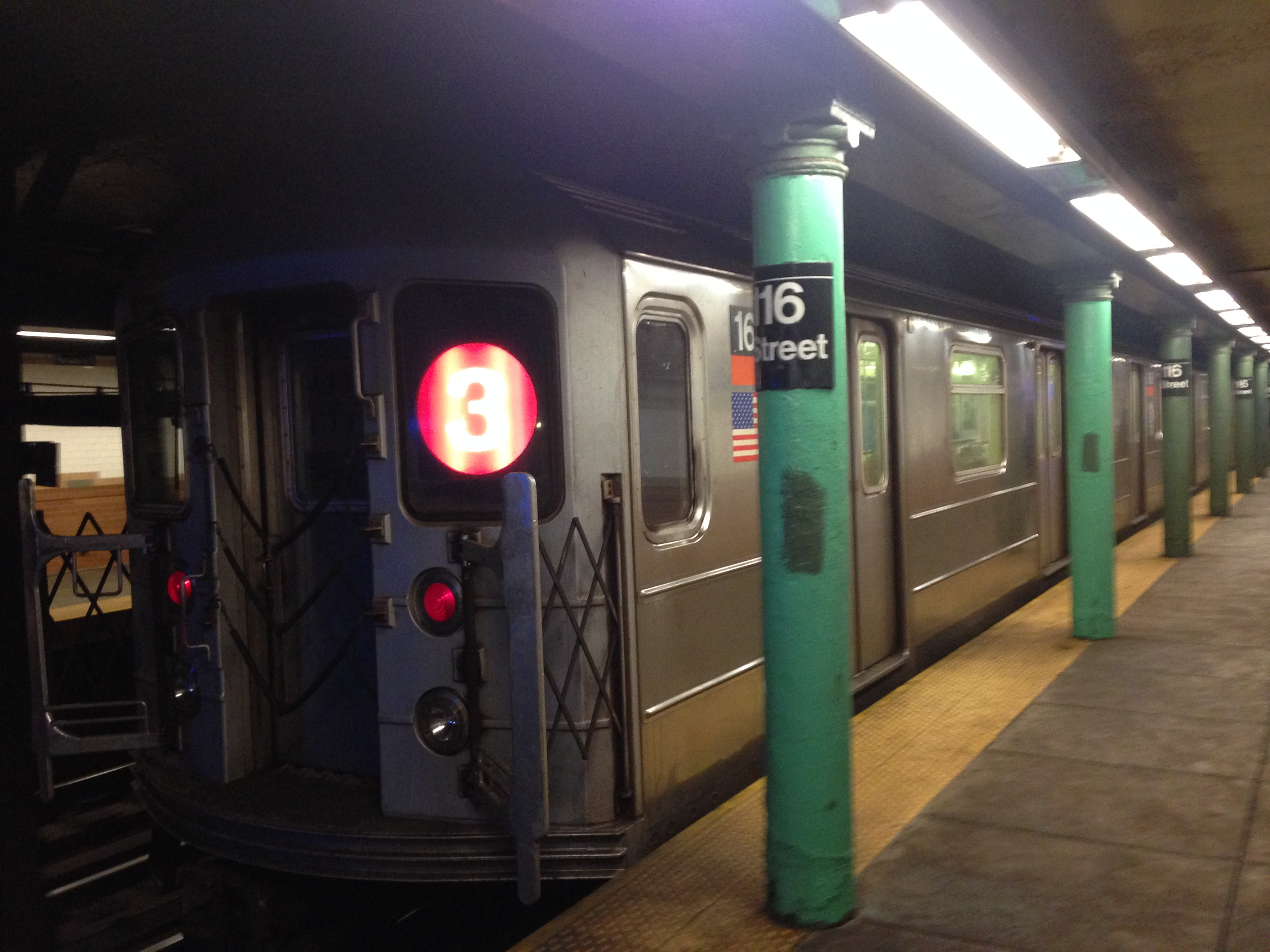 R62 at 116th Street on the 3